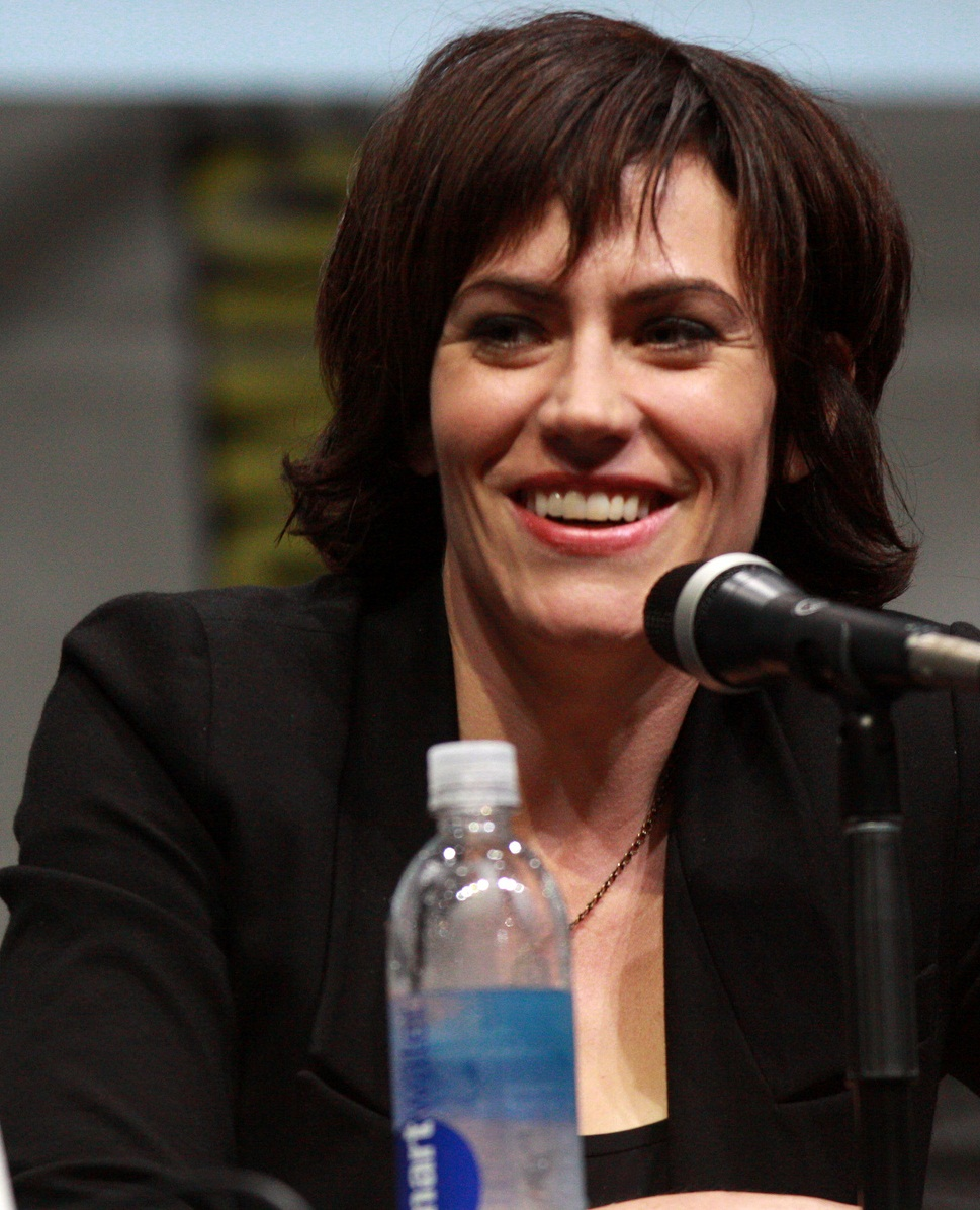 Maggie Siff at the San Diego Comic Con International in July 2013